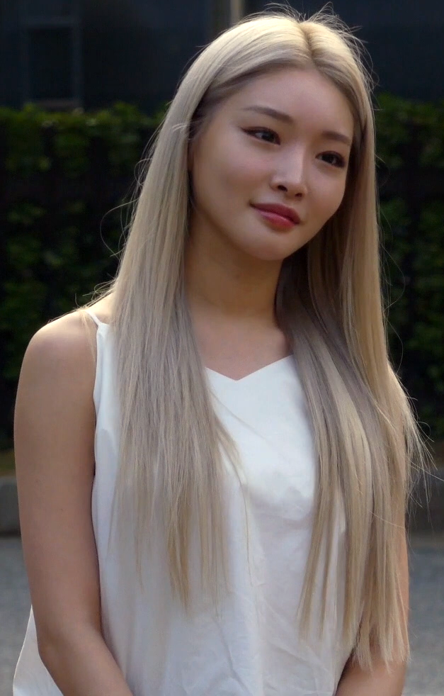 Chungha arriving at a rehearsal for KBS' Music Bank (July 19, 2019)